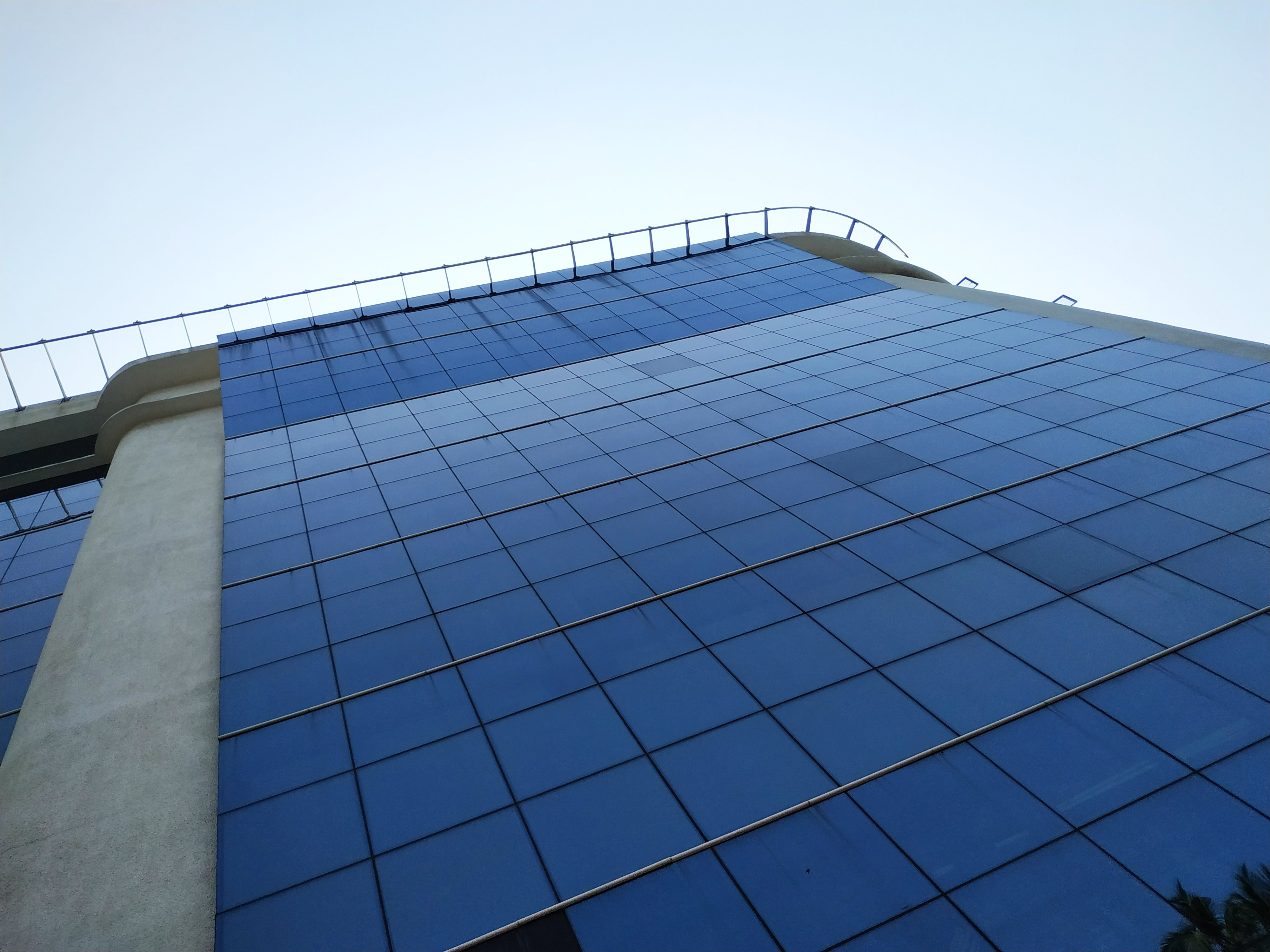 Glass curtain wall architecture building